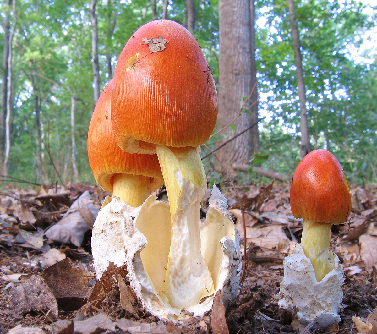 Amanita stirps Hemibapha Pomerleau (45054)